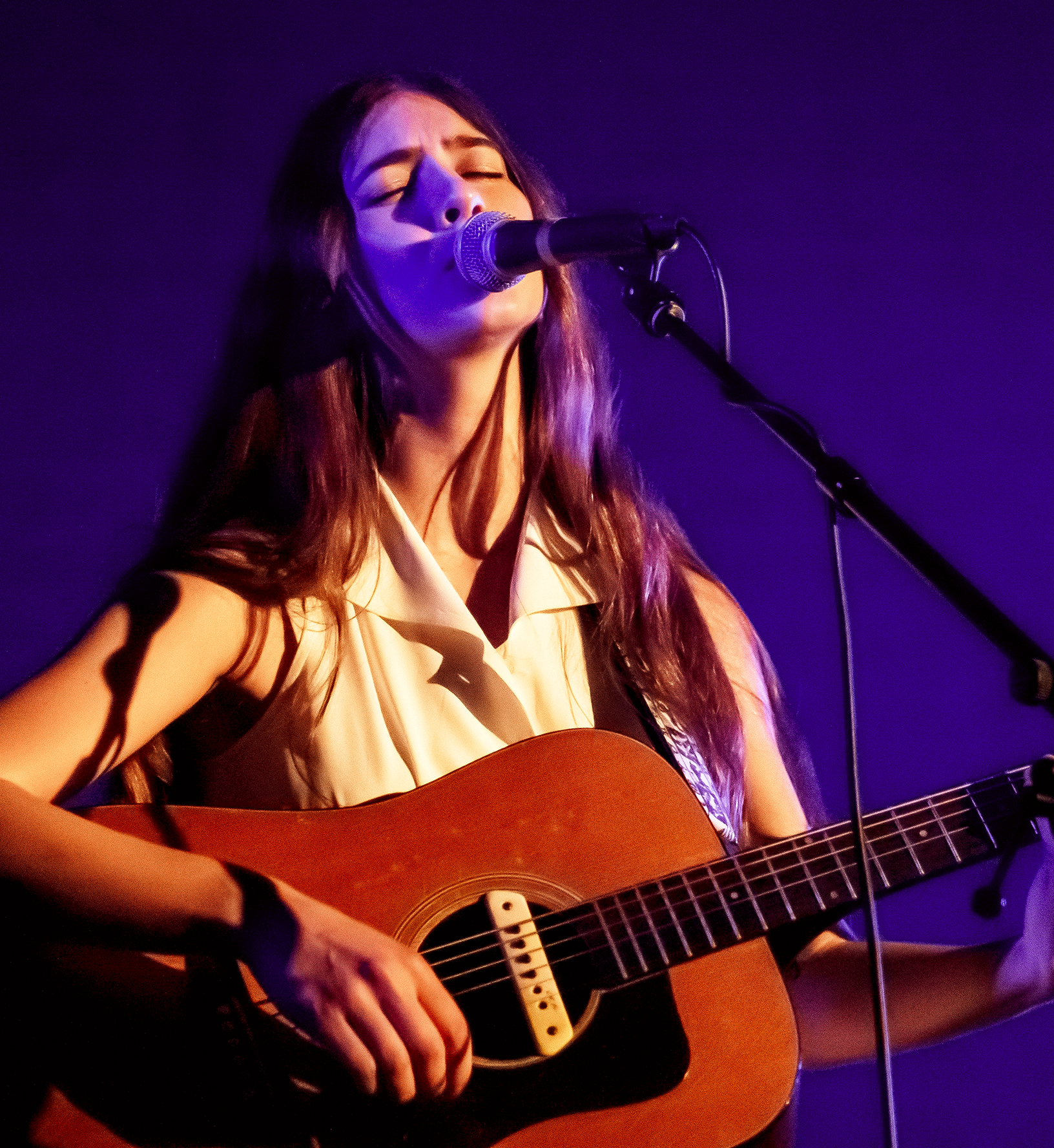 Weyes Blood performing live at the Masonic Lodge at Hollywood Forever in Los Angeles, California, on Thursday, April 4, 2019.